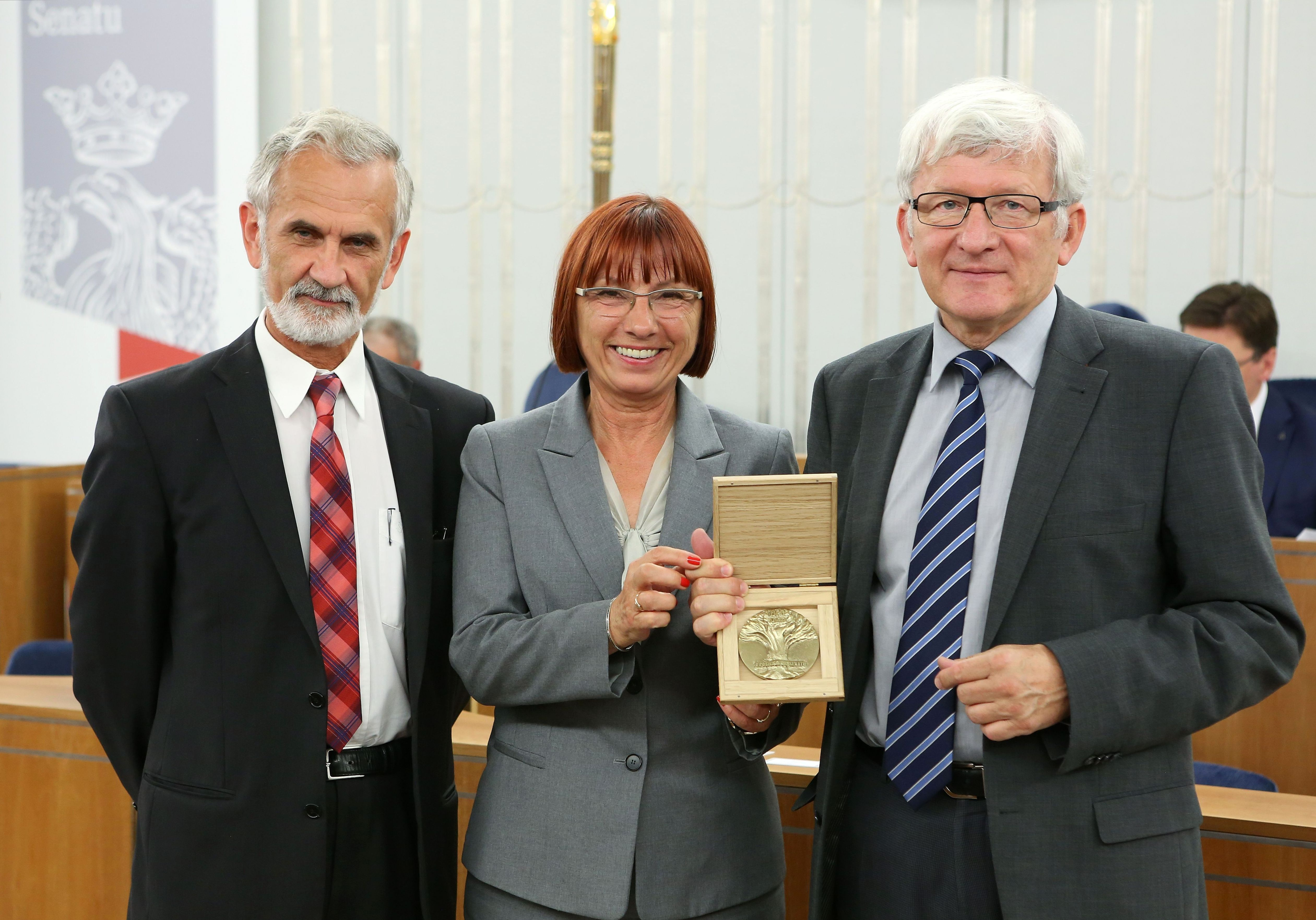 Senators Ireneusz Niewiarowski, Helena Hatka and Marek ZIółkowski during 57th sitting of the Polish Senate